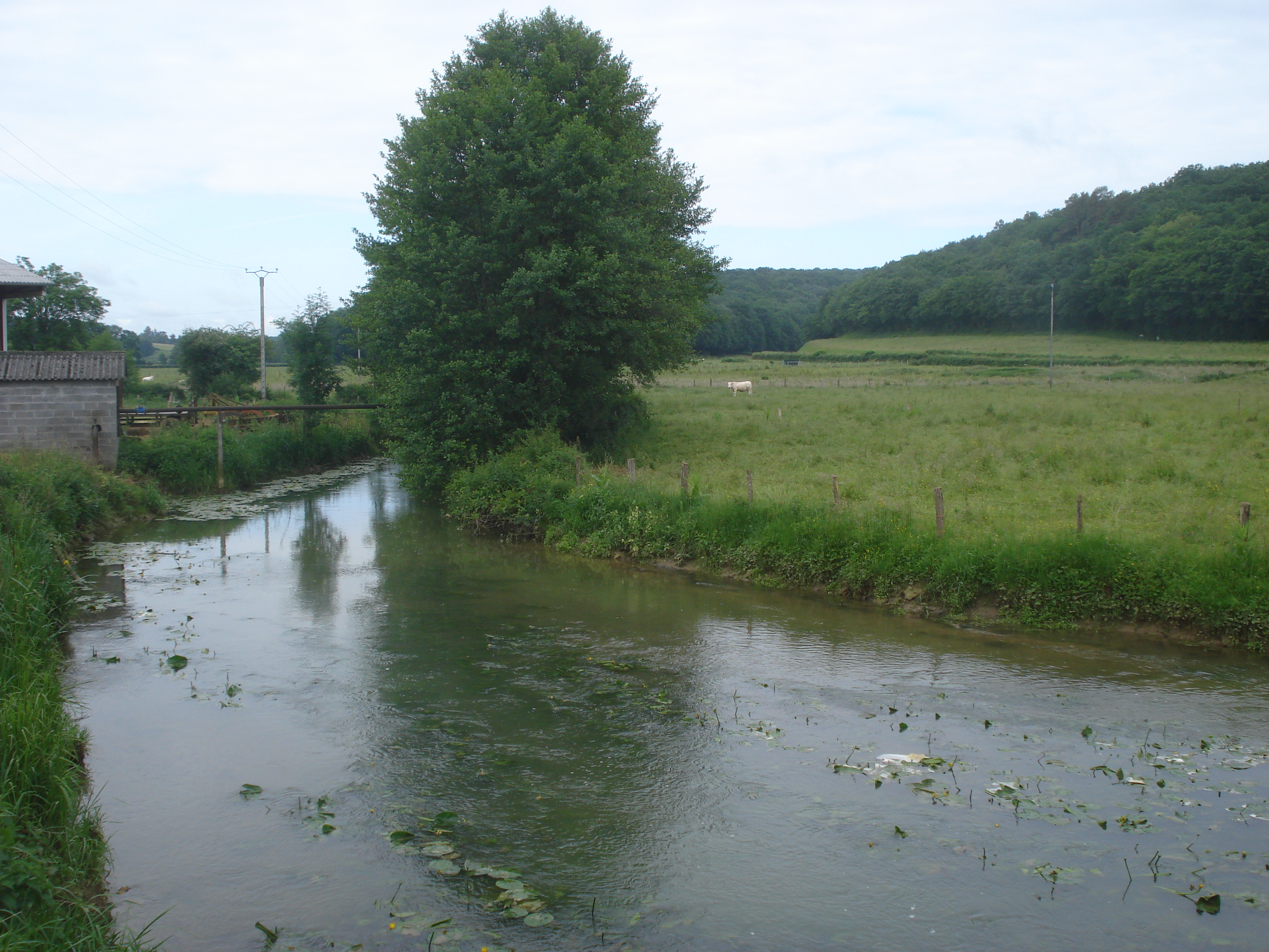 The river Beuvron at Thurigny (Fr)